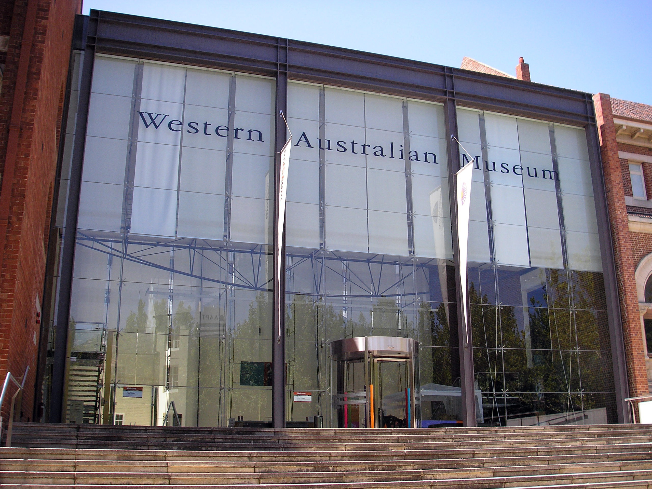 Western Australian Museum, Perth Cultural Centre, Northbridge, Western Australia.